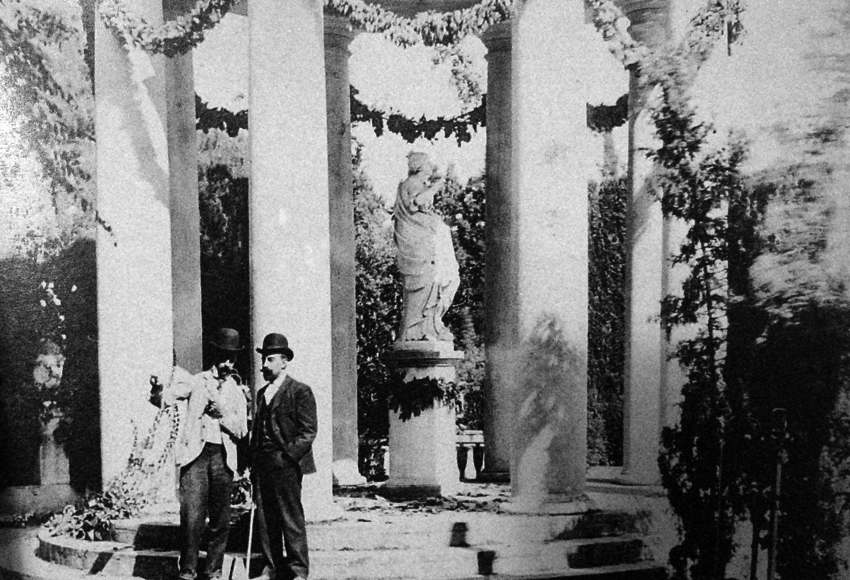 Miquel Utrillo (1862–1934) and Joan Maragall (1860–1911) in the year 1898 in the Parc del Laberint d’Horta in Barcelona, Catalonia.